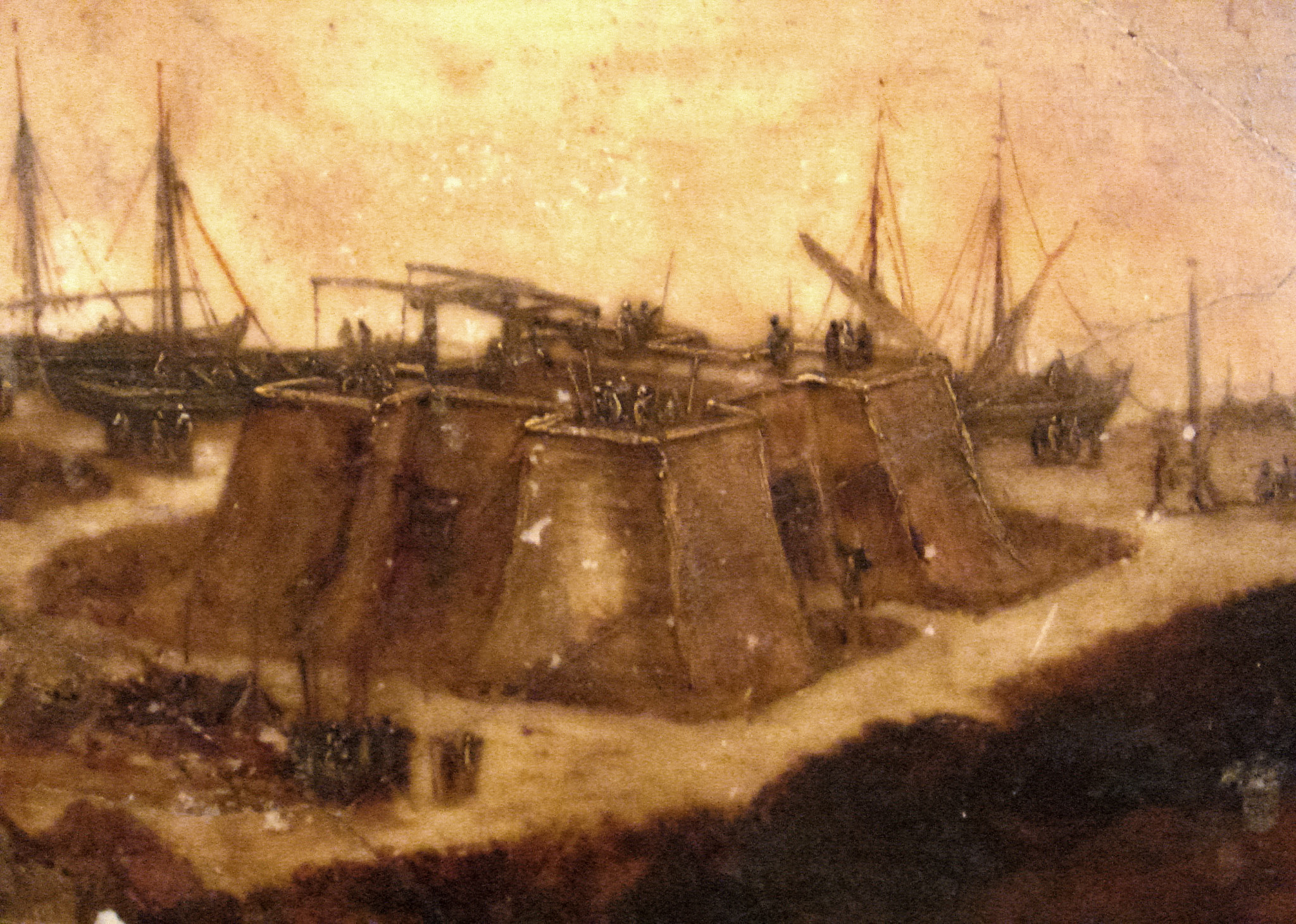 Detail of File:Louis_XIII_at_the_Siege_of_La_Rochelle_17th_century.jpg